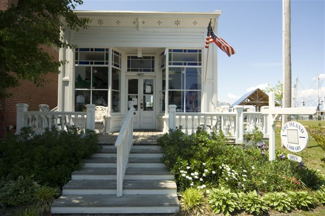 Front (Southeast side) of the Chincoteague Island Library, 4077 Main Street, Chincoteague, Virginia. The Chincoteague Island Library granted permission in April 2008 to place this image of the building in the public domain thereby releasing it for use by the general public.